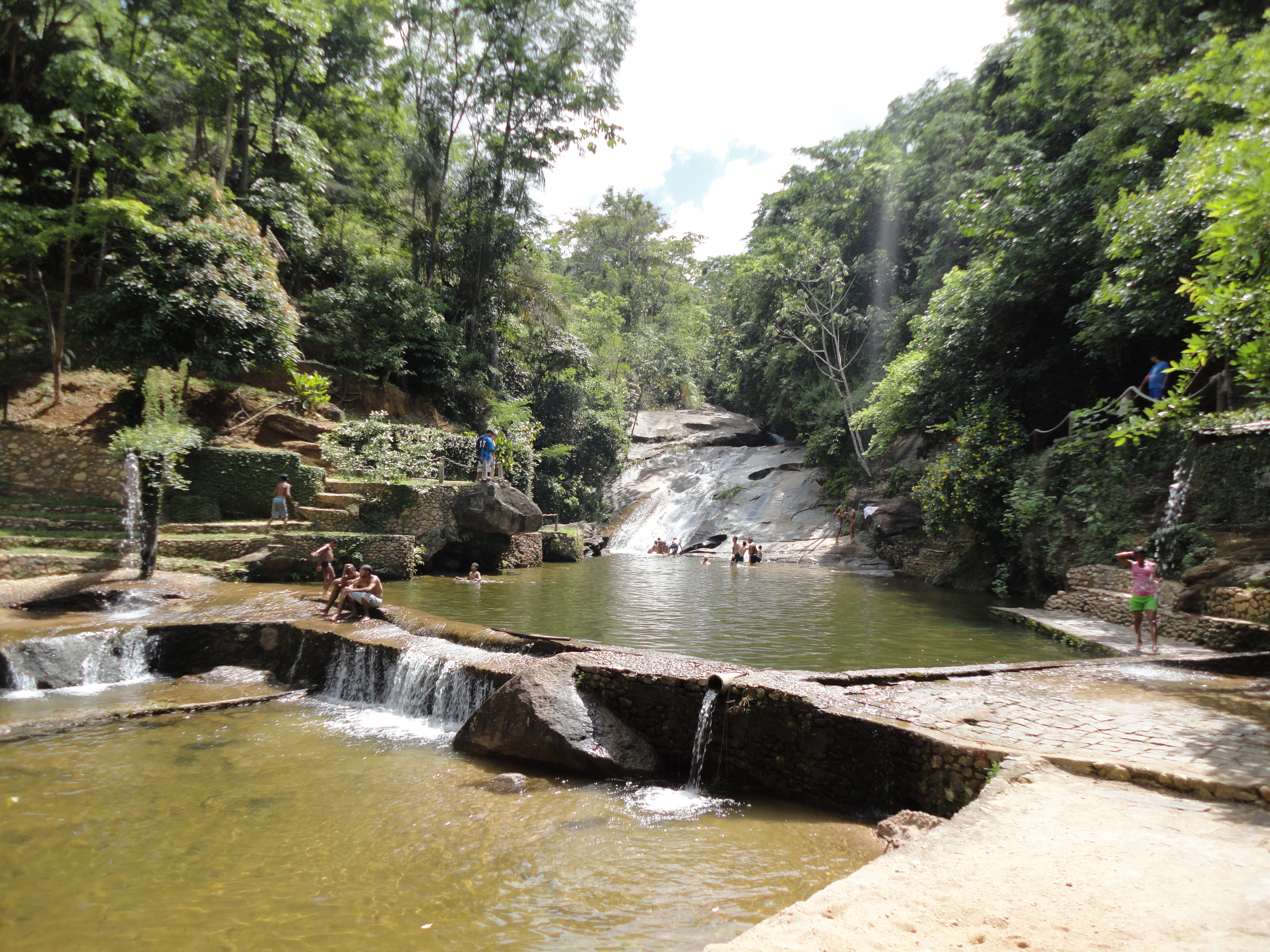 The Jacuba Waterfall, in Jaguaraçu, Minas Gerais, Brazil.